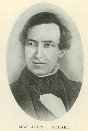 John Todd Stuart, from the first daguerreotype brought to Illinois, owned by his widow--now deceased--and loaned by her to the author.